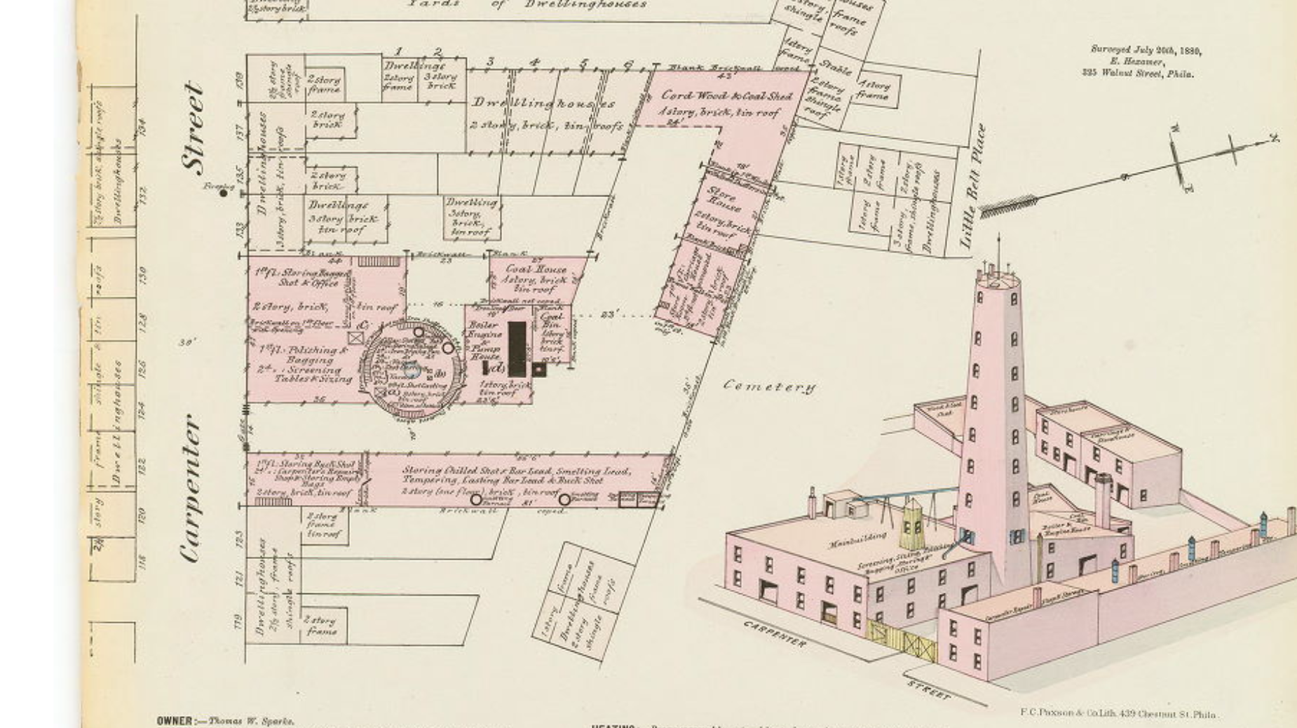 IMage from Hexamer General Survey, #1491 (1880) "Philadelphia Shot Tower, Thomas W. Sparks." of the Sparks Shot Tower in Southwark, Philadelphia, Pennsylvania